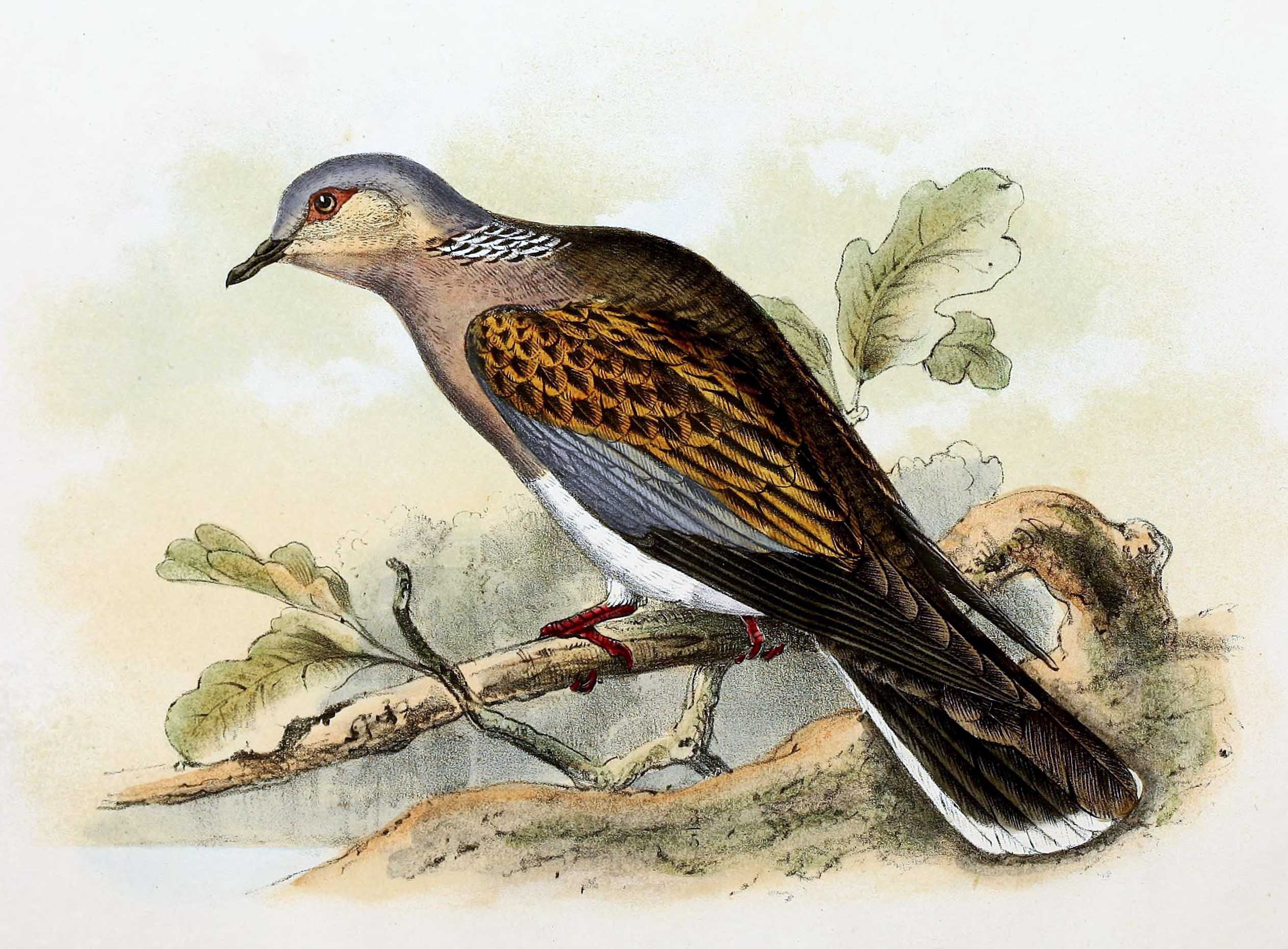 « Columba turtur » = Streptopelia turtur (European turtle dove)